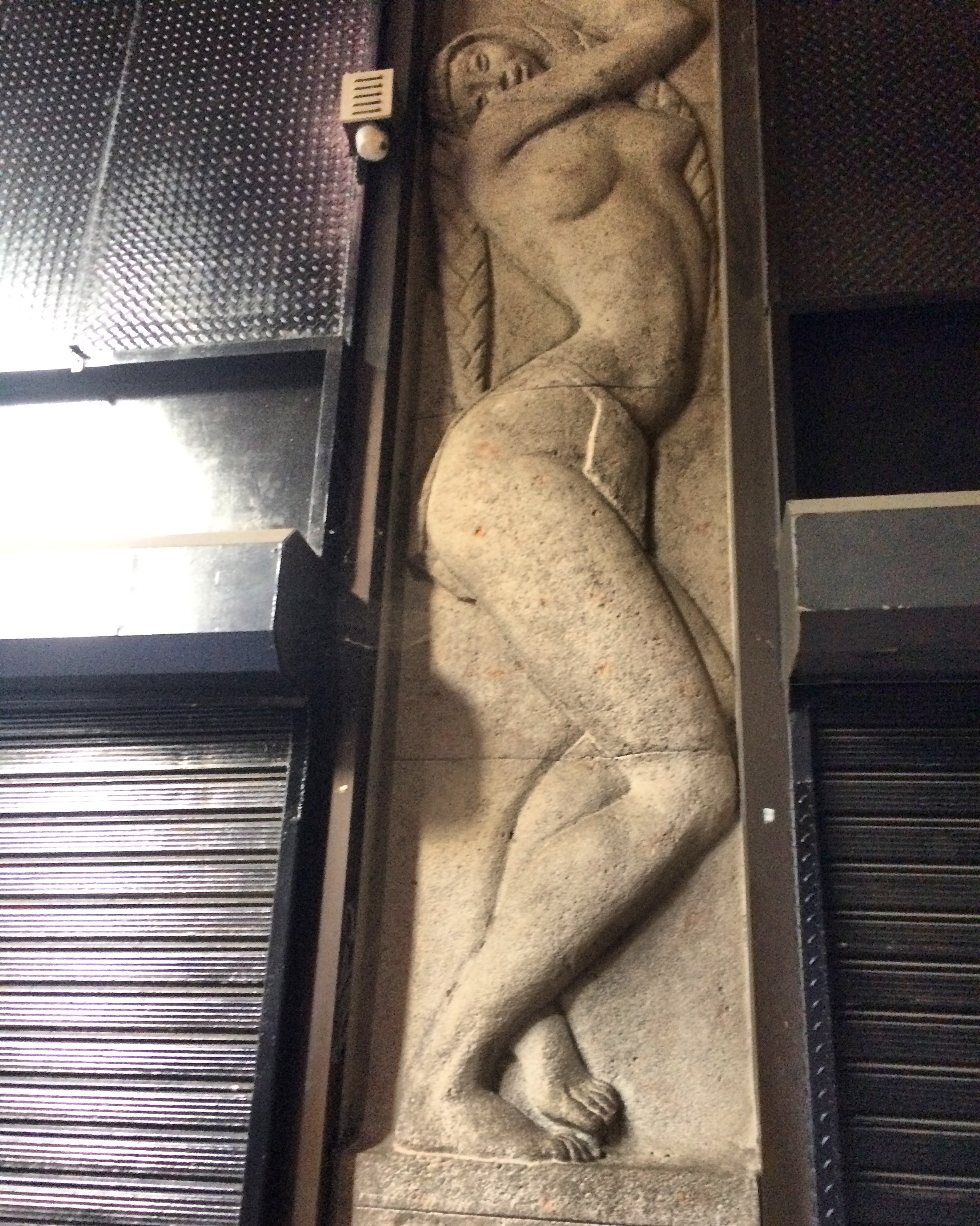 Sabana Grande Caracas, Edificio Galerías Bolívar. Obras de arte y patrimonio cultural. Fotografías de Vicente Quintero. Mayo 2018.